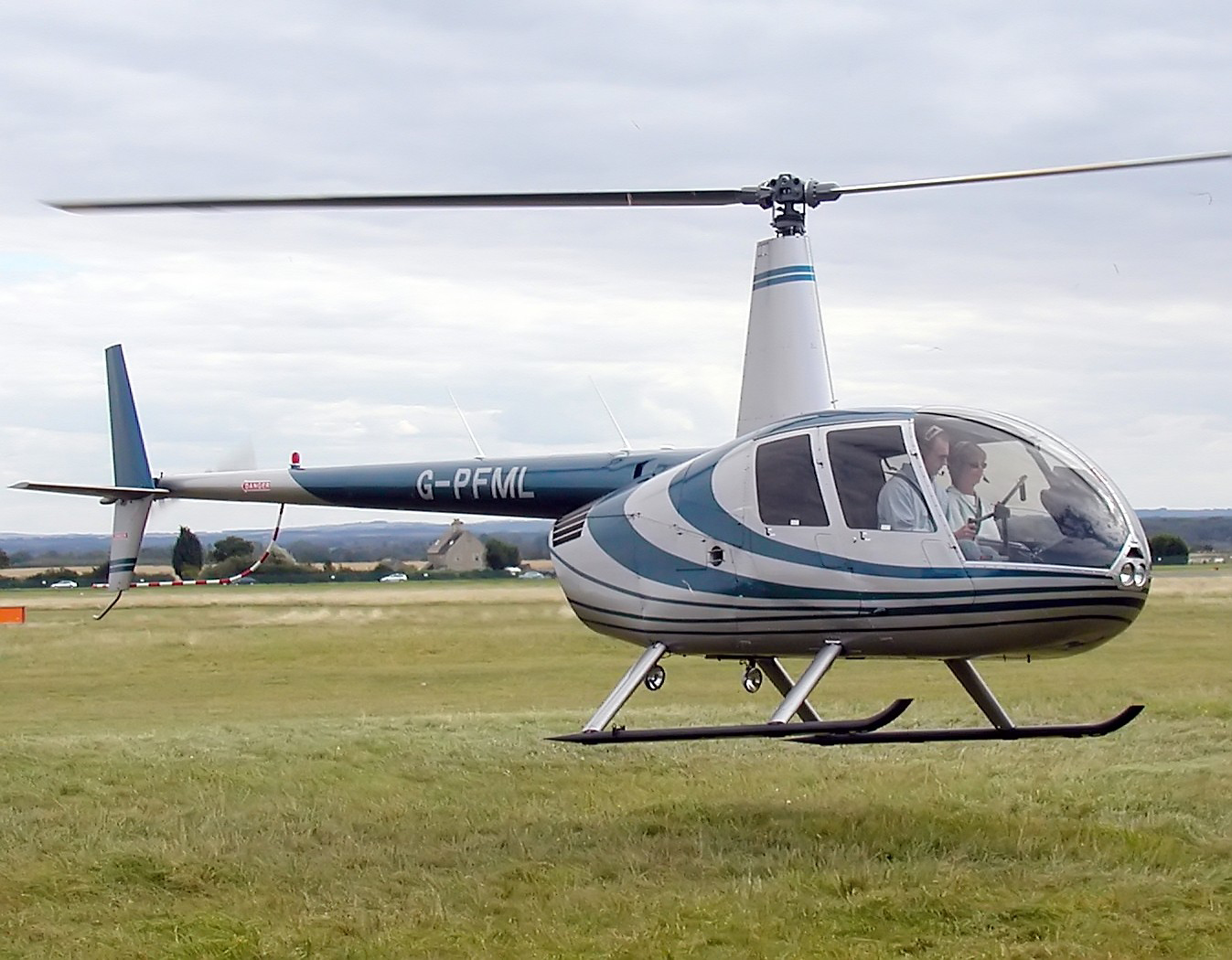 Robinson R44 Astro helicopter (G-PFML, built 1994) at Kemble Airfield, Gloucestershire, England. Photographed by Adrian Pingstone in 2003 and released to the public domain.